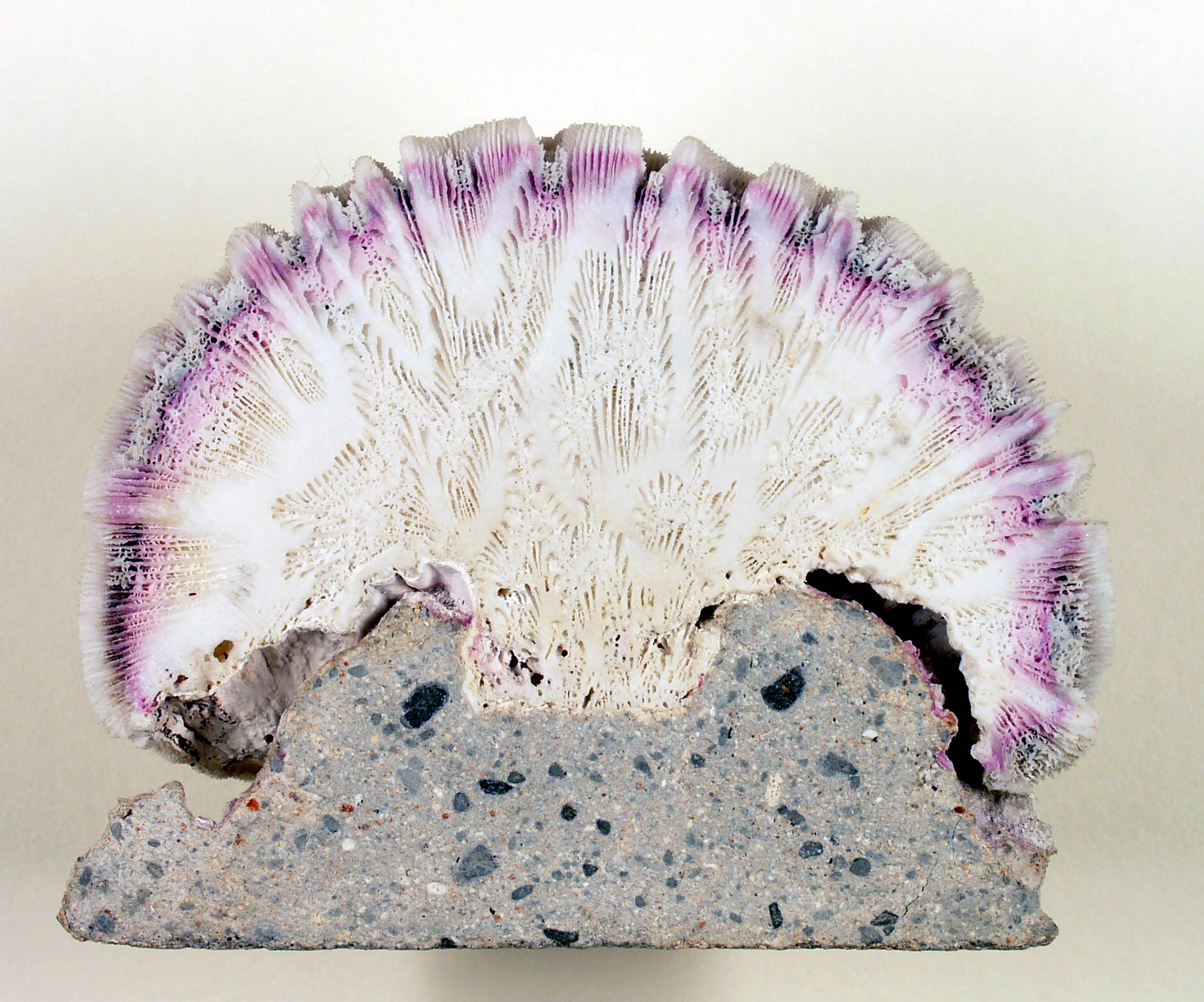 Coral on artificial hardground from Bermuda, stained for determining growth rate